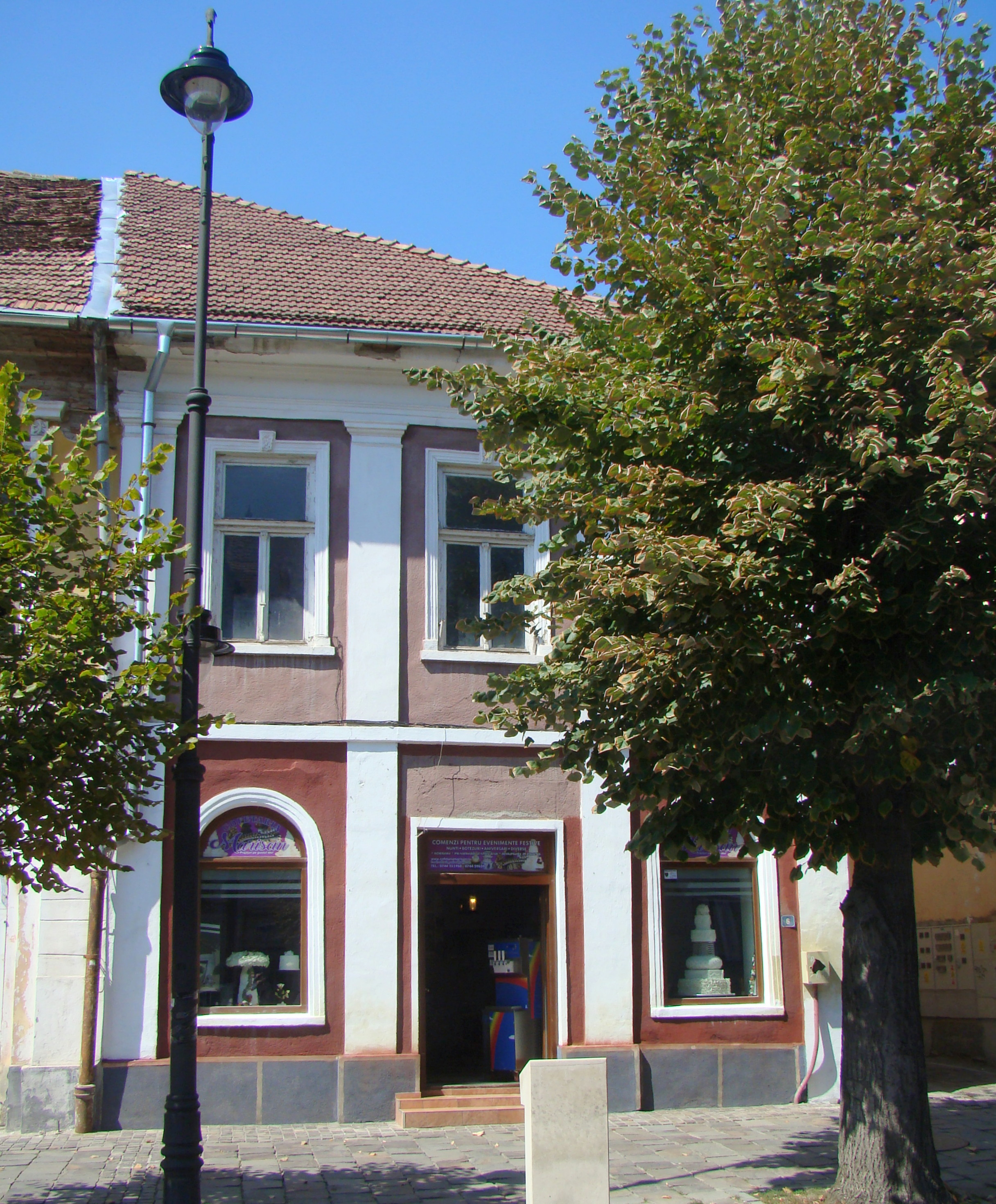 House, historic monument, in Bistrița, Gheorghe Șincai street 6